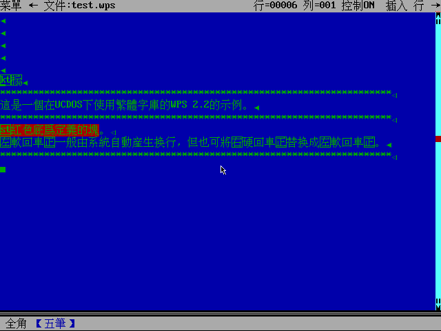 A Screenshot of editing on WPS 2.2 under UCDOS...